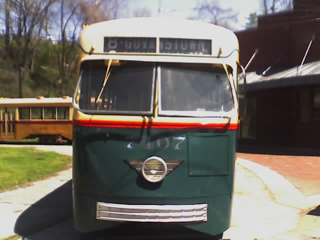 A former no. 8 streetcar, the predecessor to bus Route 8, at the Baltimore Streetcar Museum. This vehicle is now used to give rides to visitors. Image taken on-site for pertinent articles